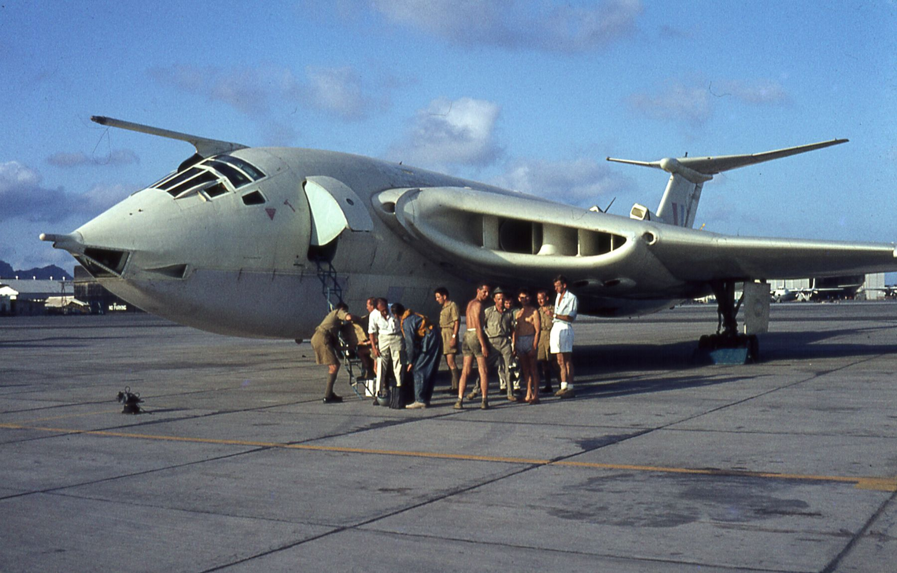 Ground crew on Victor trials